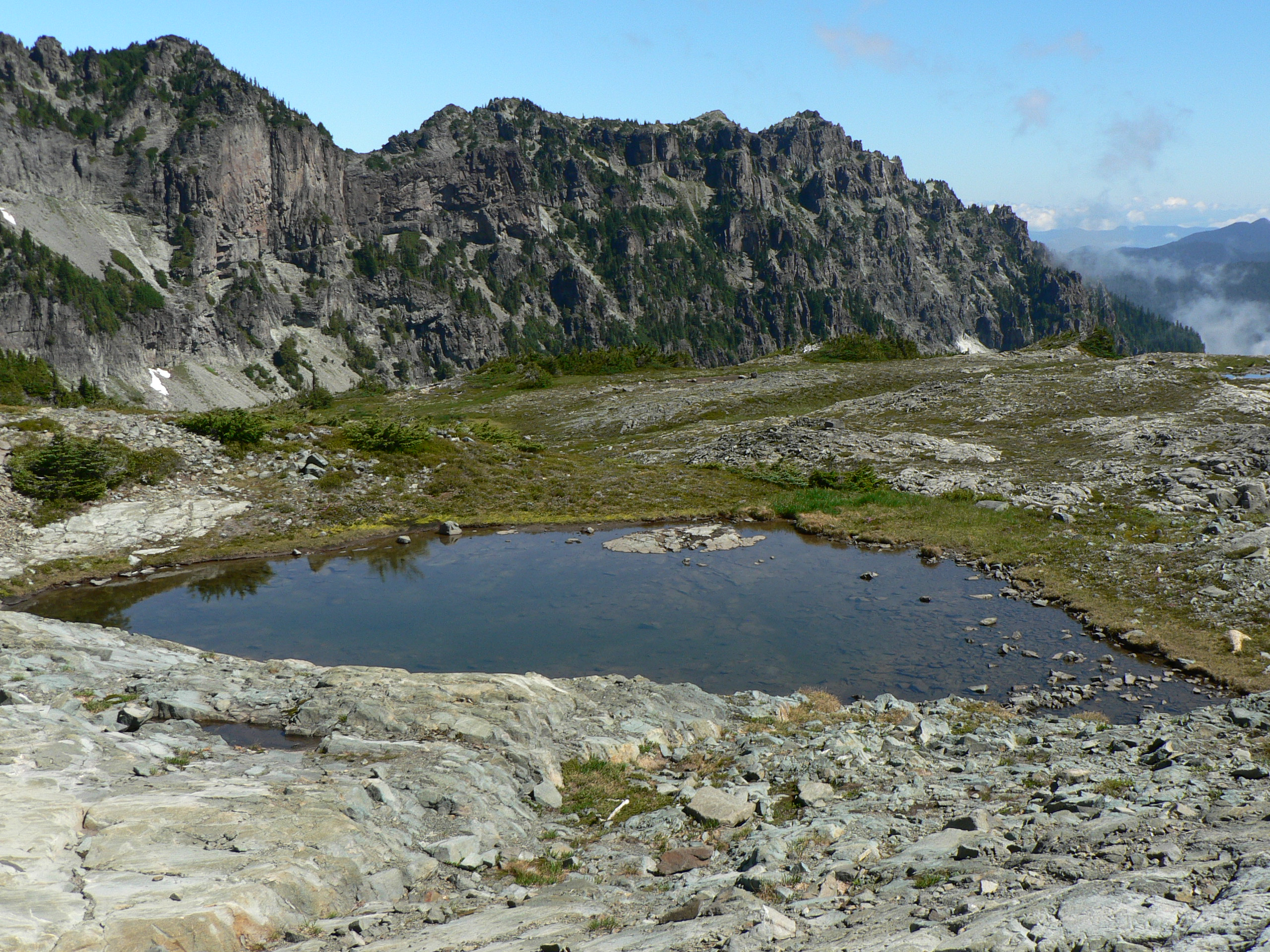 Tarn 6000 ft, with Second Mother Mountain behind